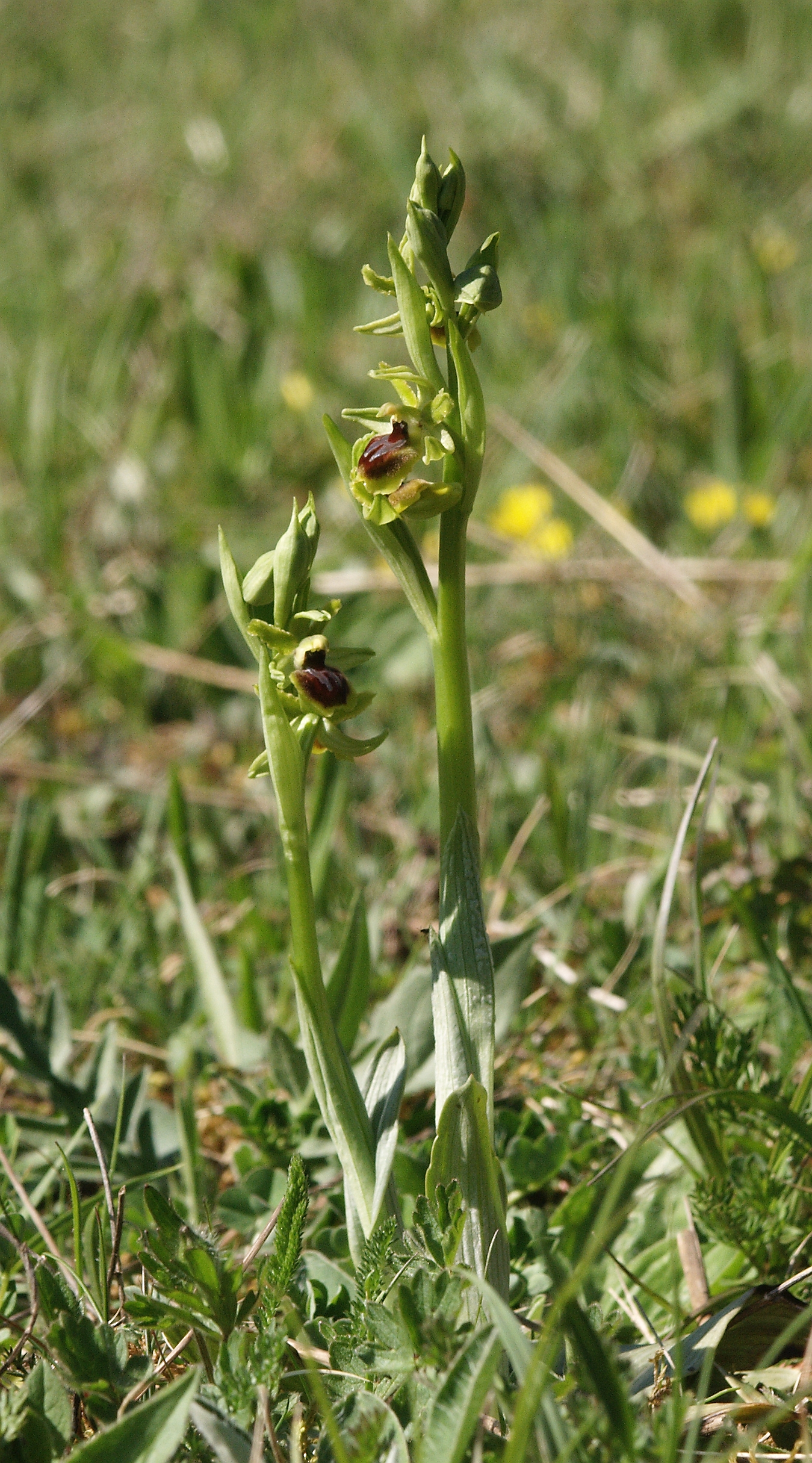 Ophrys araneola, Hohenlohe, Germany